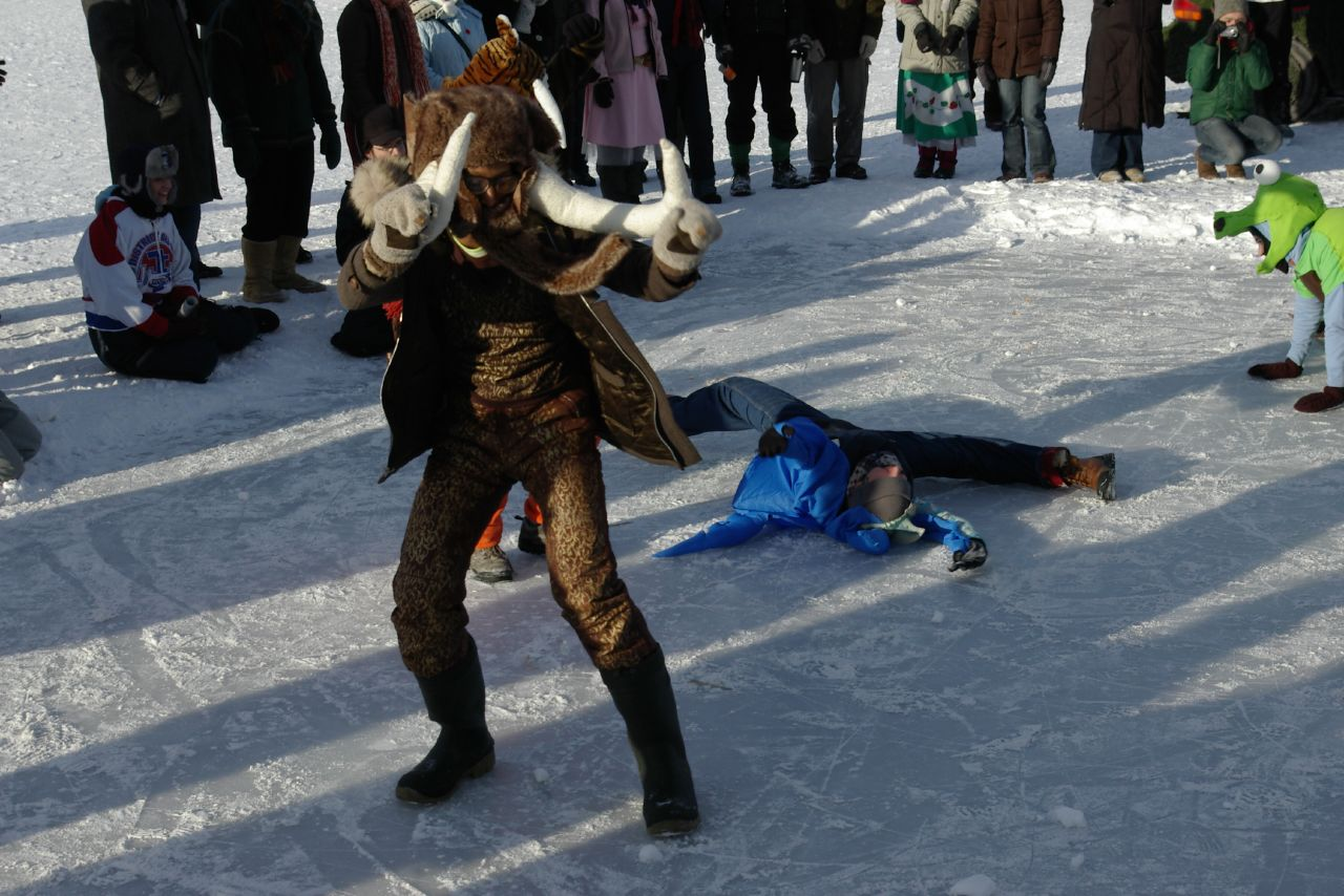 At the Art Shanties on Medicine Lake in Plymouth, Minnesota